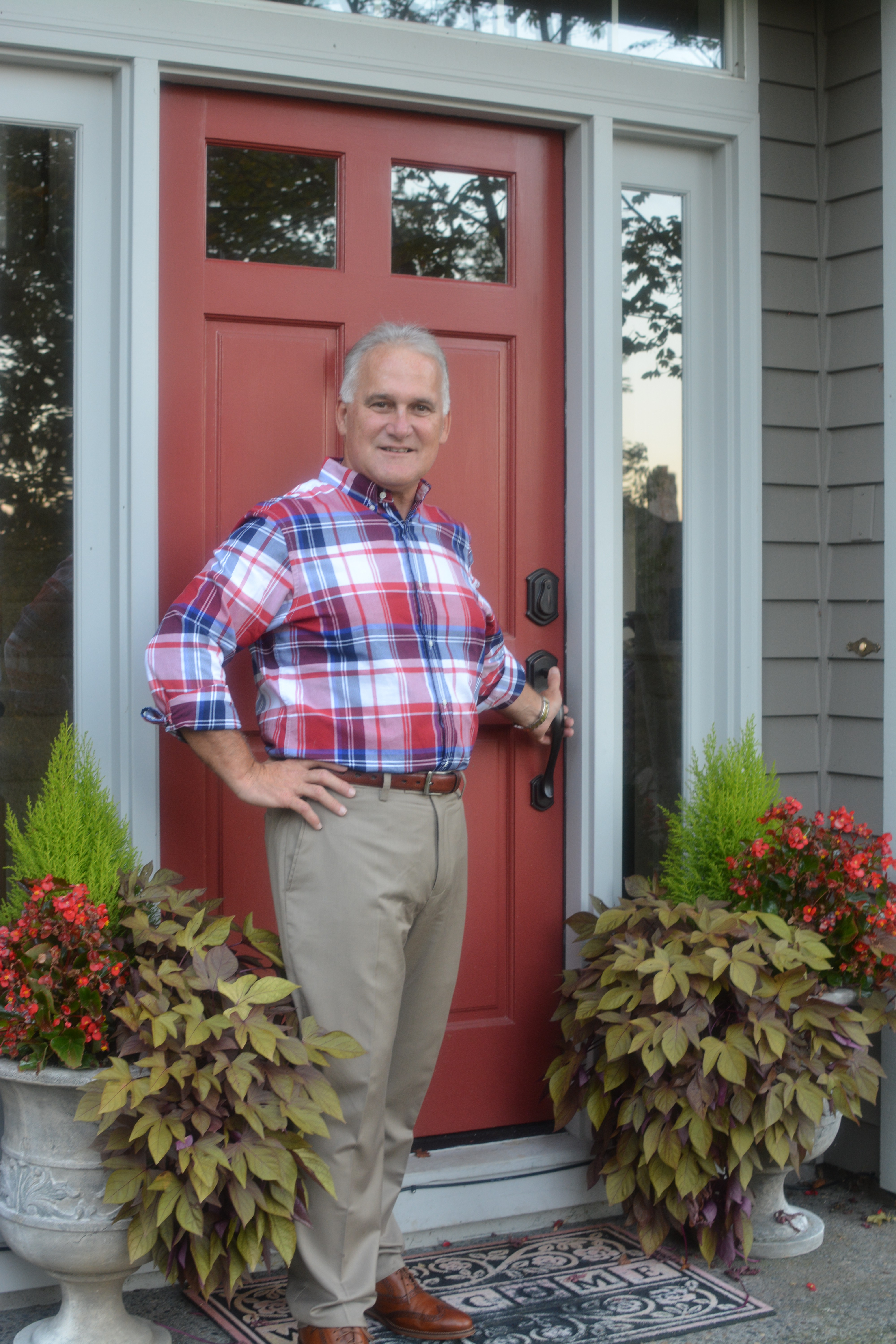 Clay Moorhead The Wise Choice